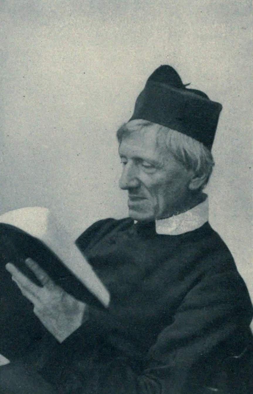 John Henry Newman reading a book.